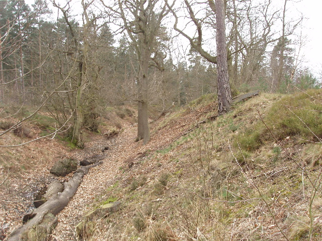 Bank and ditch of Caesar's Camp, Bracknell Caesar's Camp in Swinley Forest by Bracknell is an iron age hillfort about 2500 years old. The bank and ditch are a mile long and enclose seven hectares. It has not been excavated so the arrangement of buildings is not known. It was covered by conifer forest until recently, the Crown estate and Bracknell Forest Borough Council are reintroducing heathland plants.